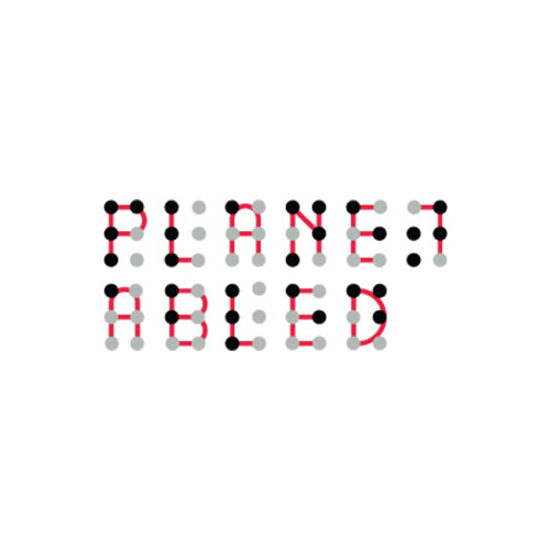 This is the logo of Planet Abled